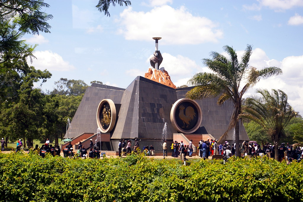 A National Monument This is an image with the theme "Africa on the Move or Transport" from: Kenya